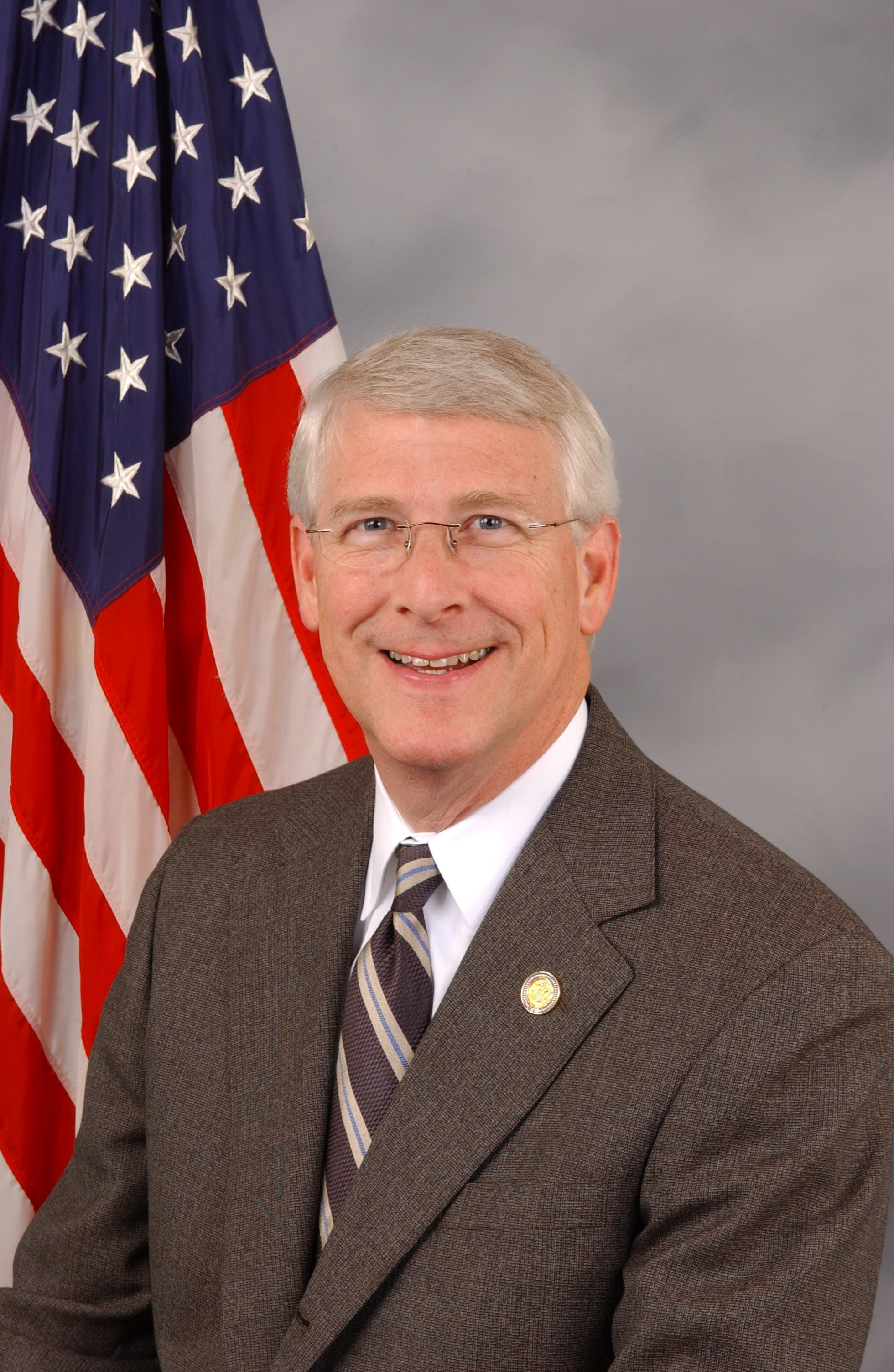 Roger Wicker, member of the United States Senate and former member of the United States House of Representatives from Mississippi.